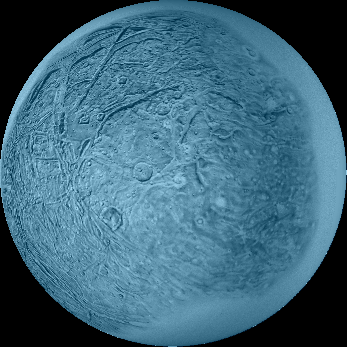 False color image of Ariel